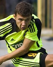 Rinat Mavlentinov in action for FC Sportakademklub